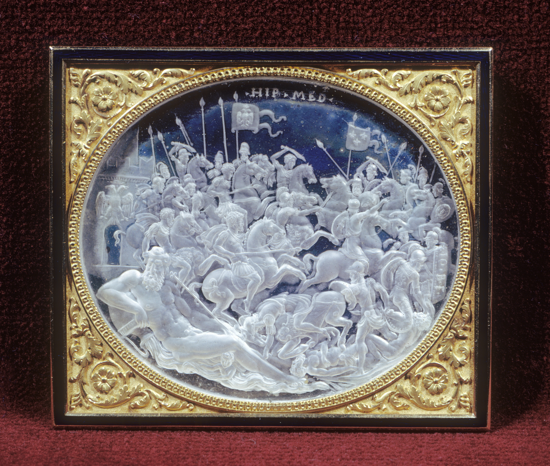 In 1521, King Francis I of France declared war against Holy Roman Emperor Charles V, and, in 1525, France was defeated at the battle of Pavia, in northern Italy. In this engraved relief, the artist has depicted the events in a style and technique reminiscent of ancient art, thereby lending the event a timeless, mythic status. An inscription indicates that it was commissioned by Cardinal Ippolito de' Medici (1511-35) in Rome. The engraving expressed his support of Charles V and the Holy Roman Empire.